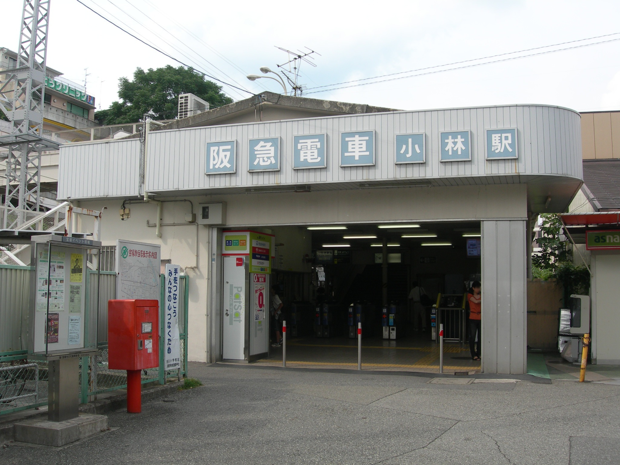 Station building and East Gates of Obayashi Station, Hankyu Imazu Line.